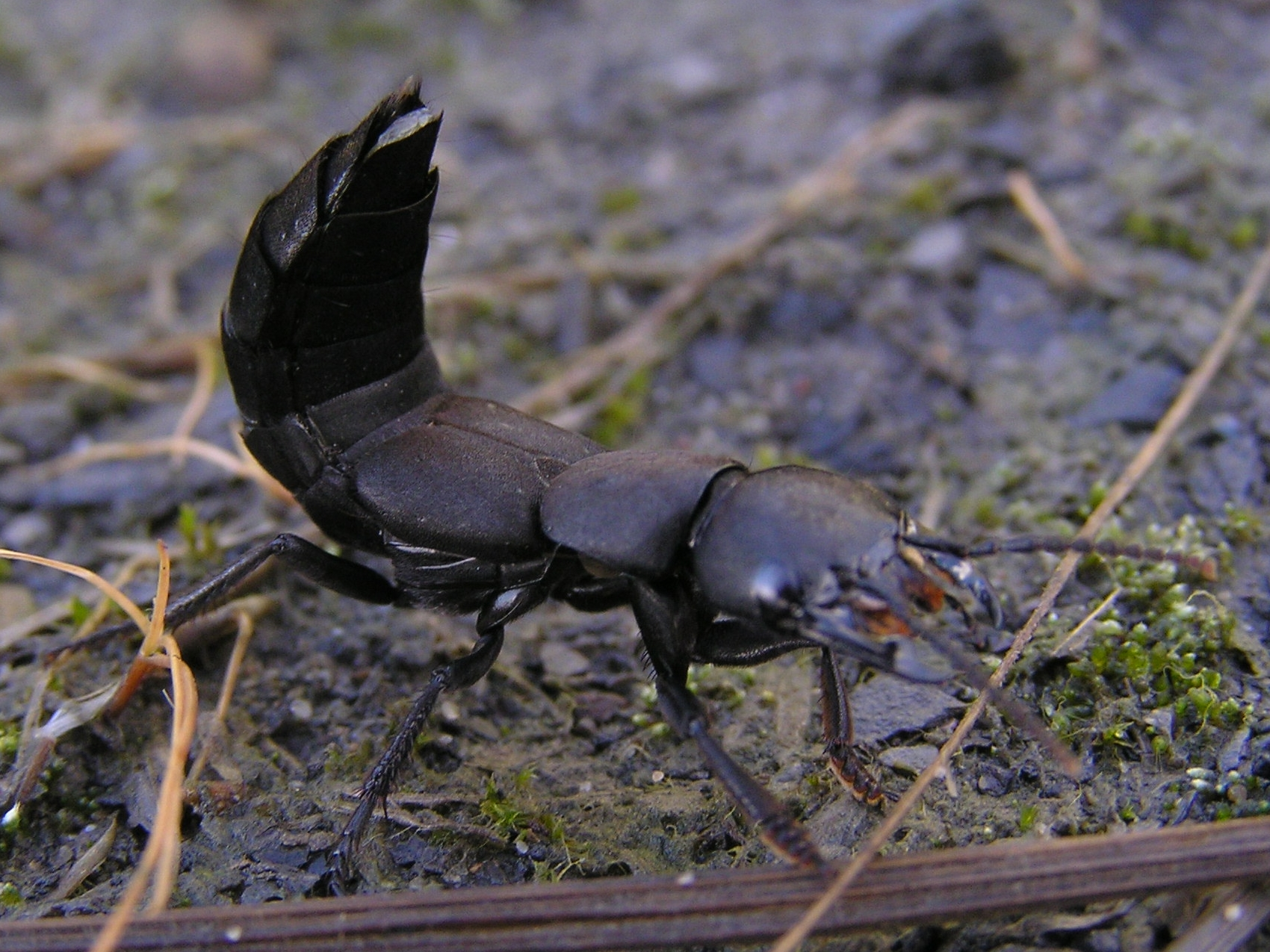 Rove beetle Ocypus olens